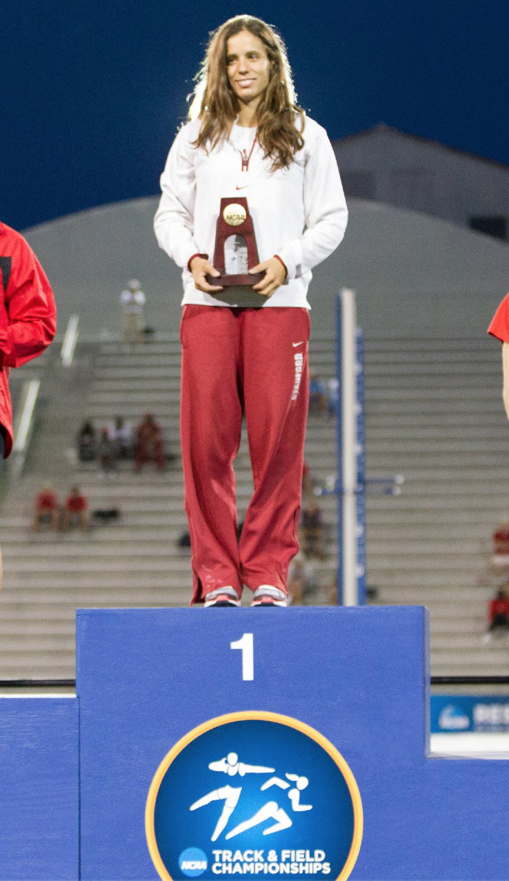 Katerina Stefanidi